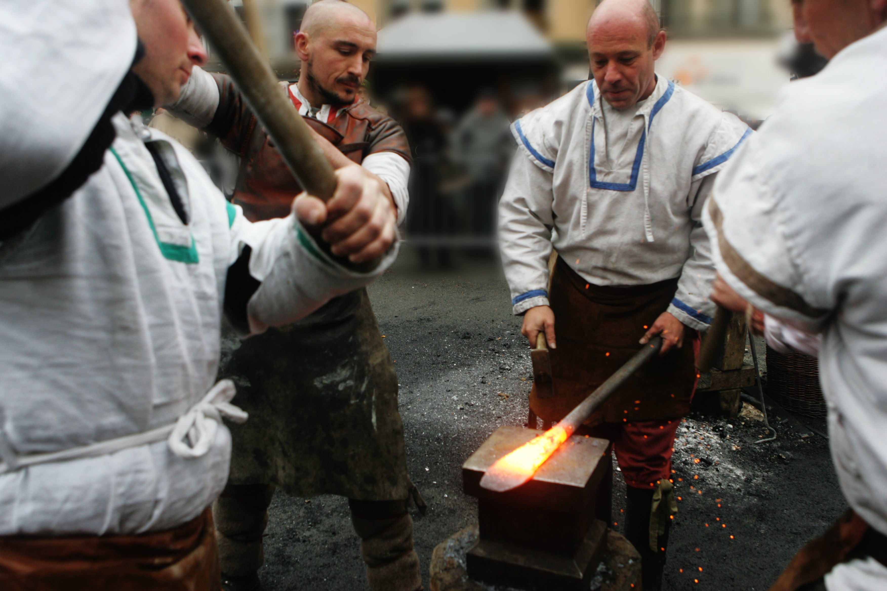 Geneva Escalade of 2009 - Blacksmiths